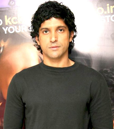 Farhan Akhtar at Yahoo - Karthik Calling Karthik tie-up media meet